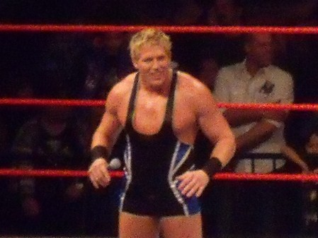 This is back when Jack Swagger was a rookie. He faced Matt Hardy for the ECW Championship.